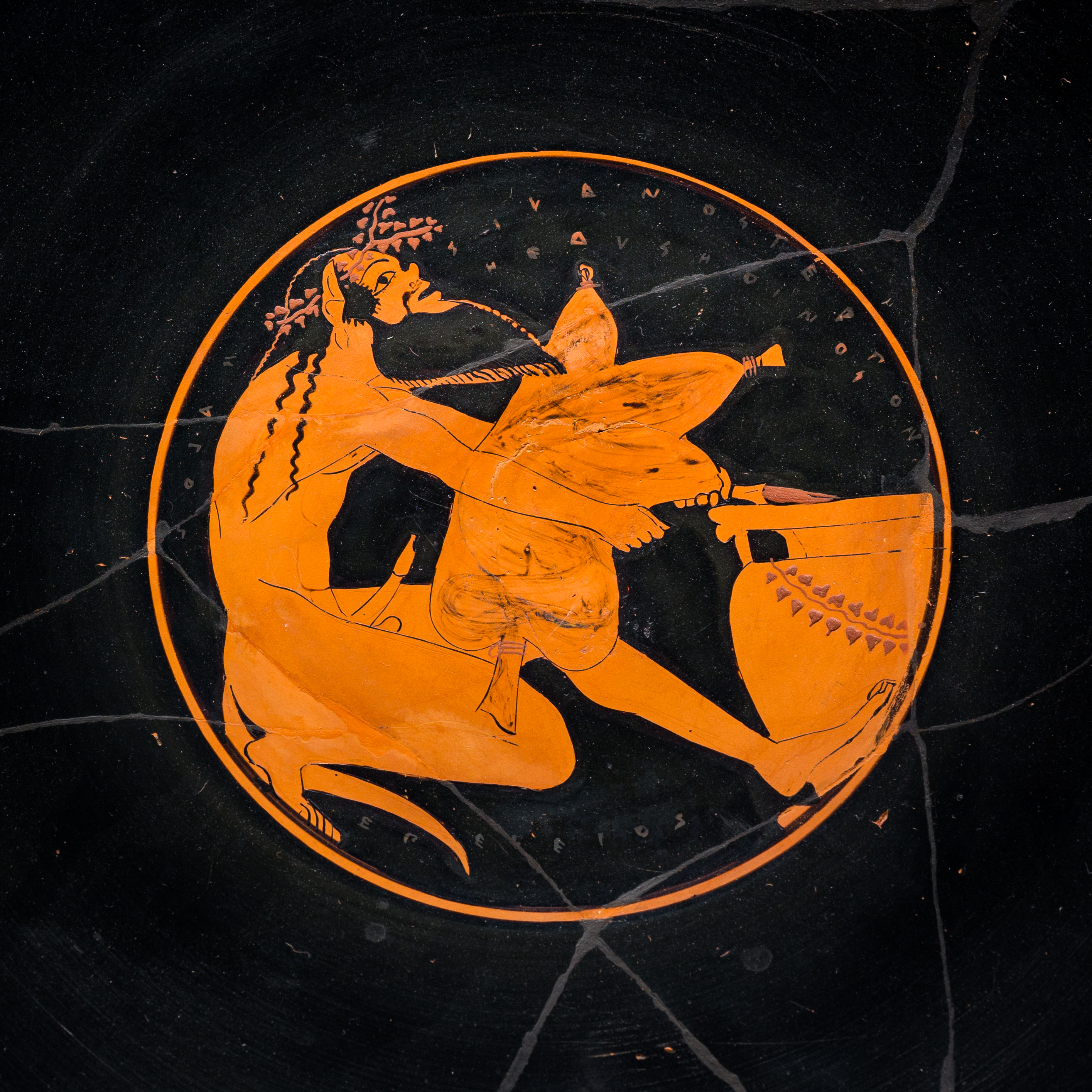 object type / vase shape: attic red figure cup type B (kylix) - description interior: crouching Satyr / Silenos named Terpon (who has fun) filling a wreathed column-krater pressing the wine from a wineskin; inscriptions: SILANOS TERPON, HEDYS H(o) OINOS ("sweet is the wine"), EPELEIOS KALOS - exterior side A: Peleus wrestling with Thetis who tries to escape him by changing into a lion, between fleeing Nereids (sisters of Thetis); name inscriptions: KALYKA, CHORO, THETIS, PELEUS, ERATO, IRISA, KYMATOTHAI - side B: 3 bearded man and 4 youths at the komos around a krater; kalos-inscriptions: DOROTHEOS KALOS NAICHI, ISRACHOS KALOS, EPELIOS KALOS, THEODOROS KALOS, HO PAIS KALOS NAICHI - under the handles: altar and pointed amphora - production place: Athens - painter: Epeleios Painter - period / date: late archaic, ca. 510-500 BC - material: pottery (clay) - height: 15,5 cm; diameter: 40,5 cm - findspot: Vulci - museum / inventory number: München, Staatliche Antikensammlungen 2619 A - bibliography: John D. Beazley, Attic Red-Figure Vase-Painters, Oxford 1963(2), 146, 2 - Please note: The above museum permits photography of its exhibits for private, educational, scientific, non-commercial purposes. If you intend to use the photo for any commercial aime, please contact the museum and ask for permission.